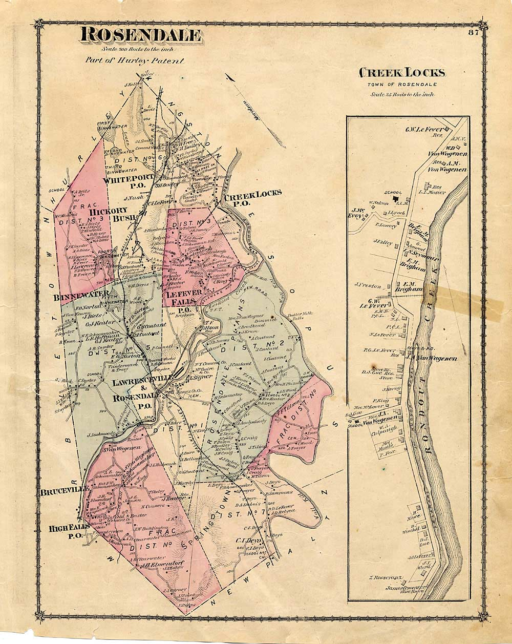 Scanned page of an atlas of Ulster County, New York prepared by F. W. Beers and first published in 1875.